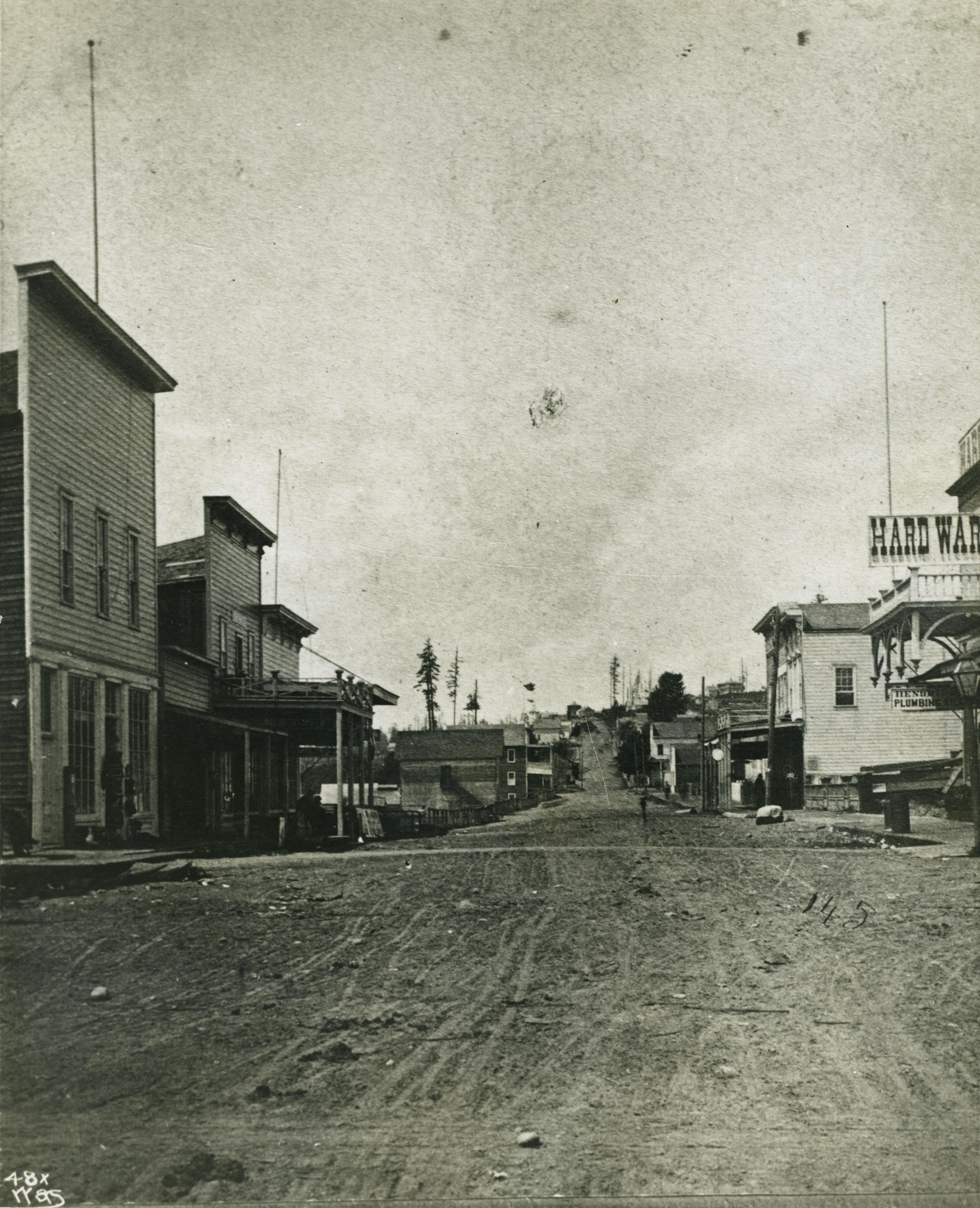 Seattle, Washington, USA, Front Street (now First Avenue) looking north (actually N-NW) from around the corner of Columbia Street, c. 1870.